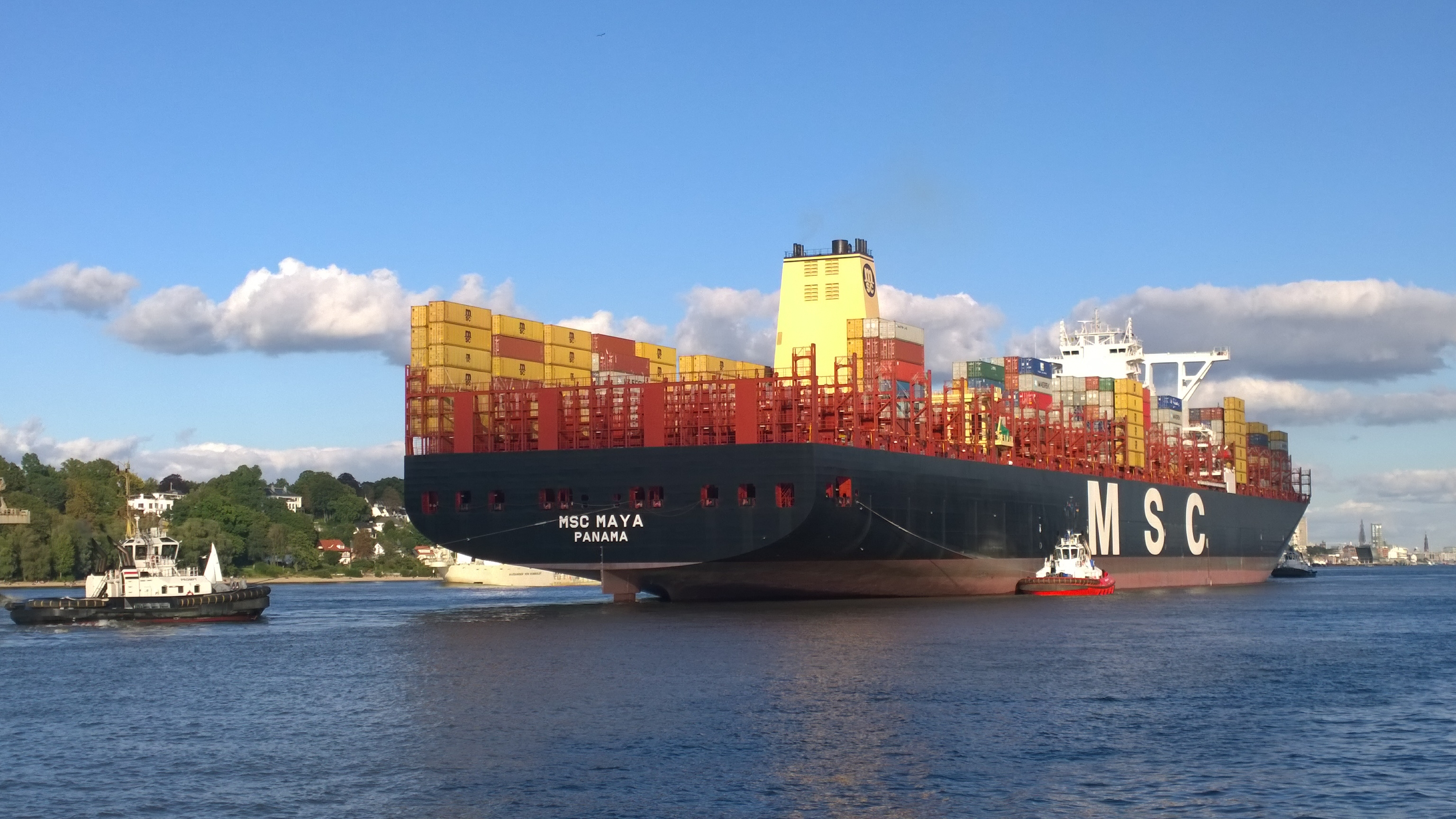 Container ship MSC Maya with L & R rear tractor prompt on the river Elbe with the port of destination Hamburg